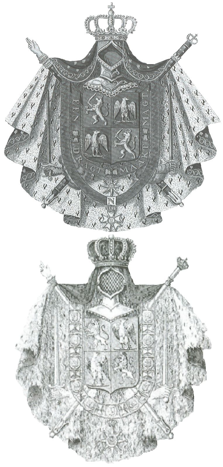 Arms of the Kingdom of Holland, 1807 and 1808